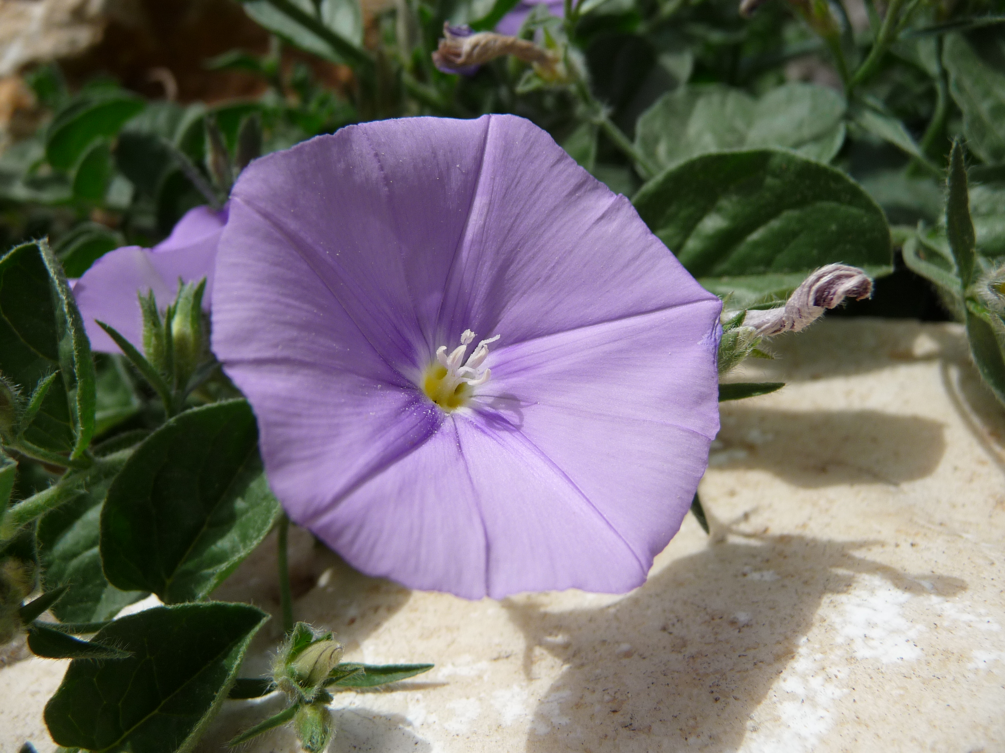 Beit Oren is a kibbutz in northern Israel. It falls under the jurisdiction of Hof HaCarmel Regional Council.